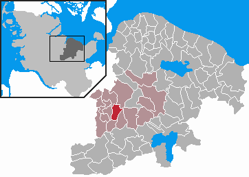 This map shows the area of the Gemeinde (municipality) Postfeld in the Kreis (district) Plön, Schleswig-Holstein, Germany.